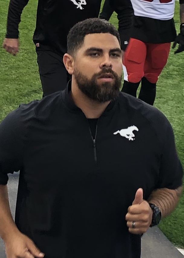 Corey Mace, , 2019 defensive line coach for the Calgary Stampeders.